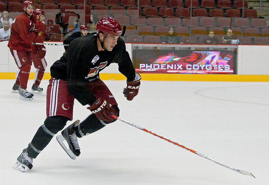 Phoenix Coyotes forward Taylor Pyatt during a team practice in 2010.